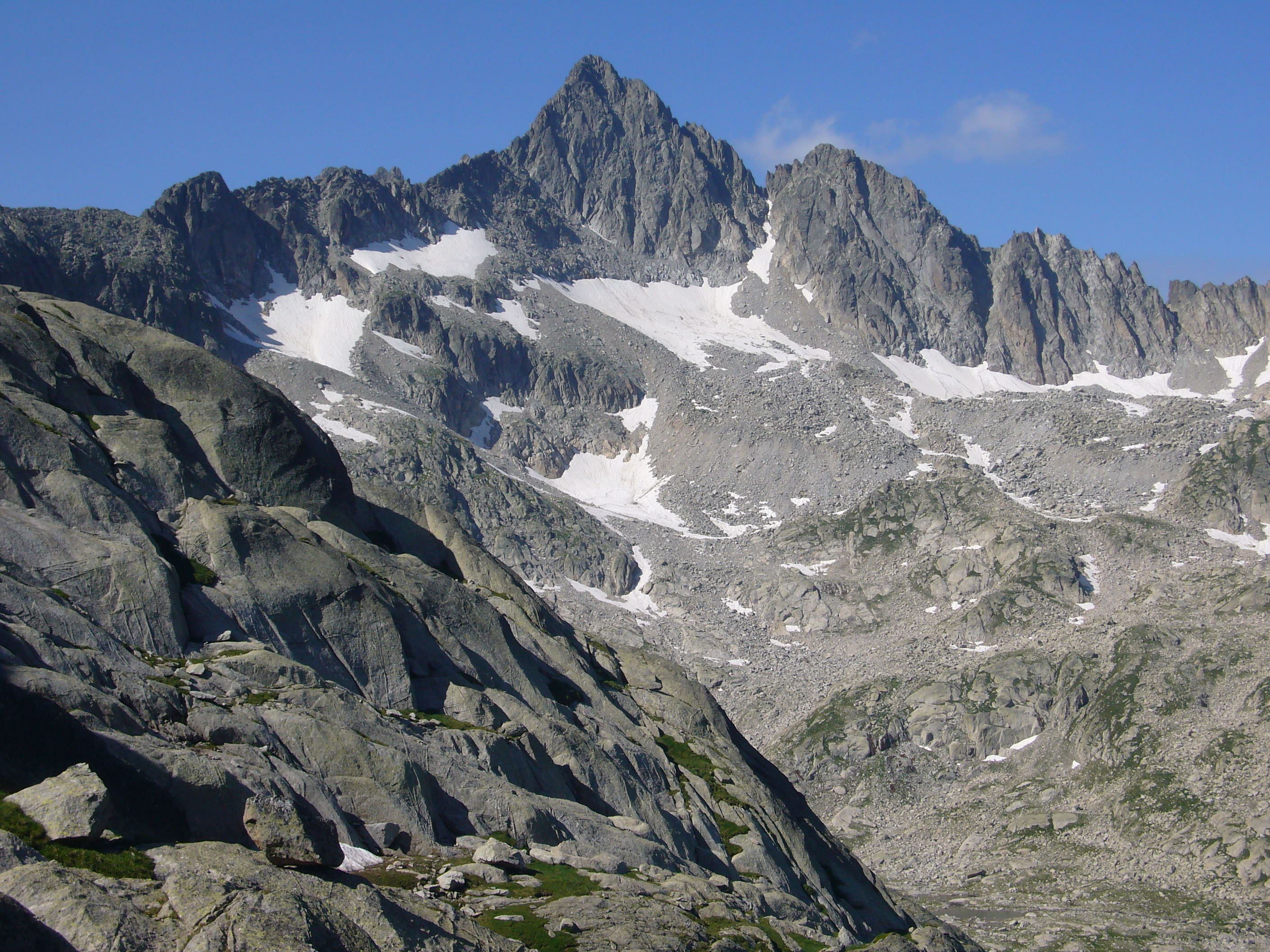 Besiberri Nord (North Face), la Vall de Boí, Alta Ribagorça, Catalonia